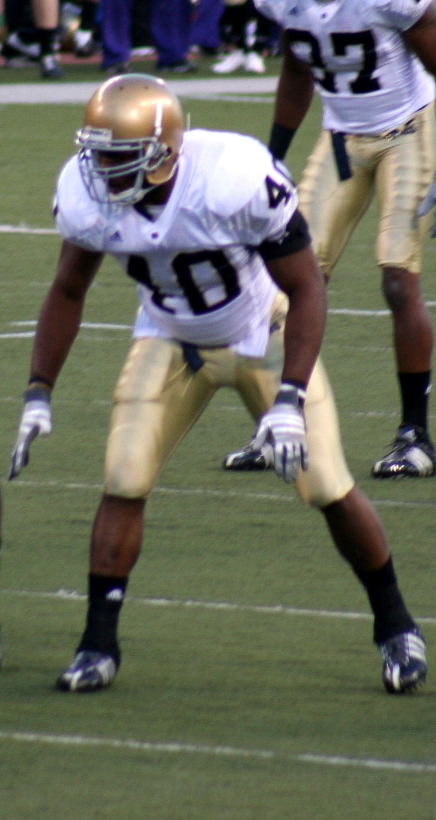 Picture of 2008 Notre Dame senior captain Maurice Crum Jr.